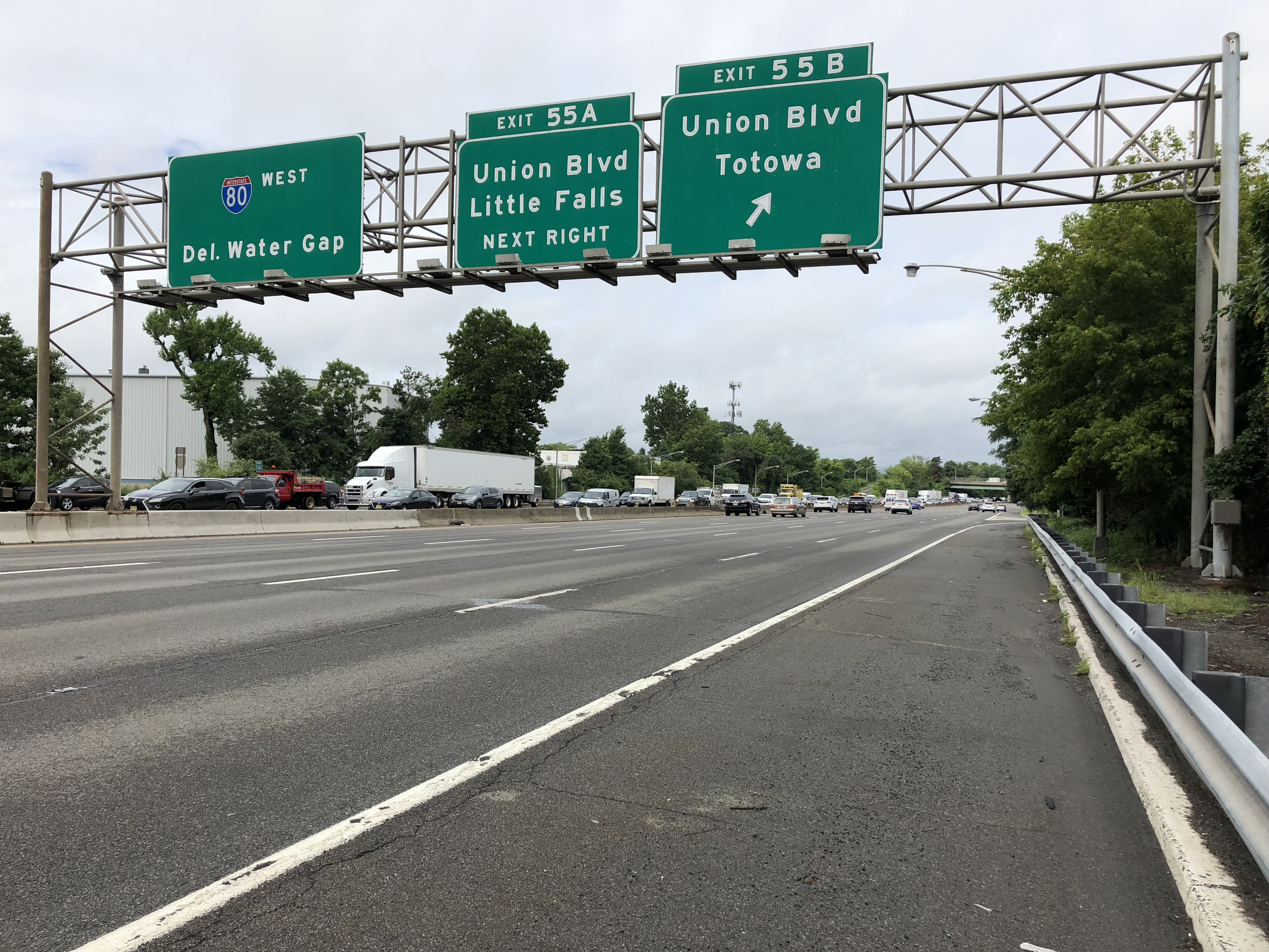 View west along Interstate 80 (Bergen-Passaic Expressway) at Exit 55B (Union Boulevard, Totowa) in Totowa, Passaic County, New Jersey